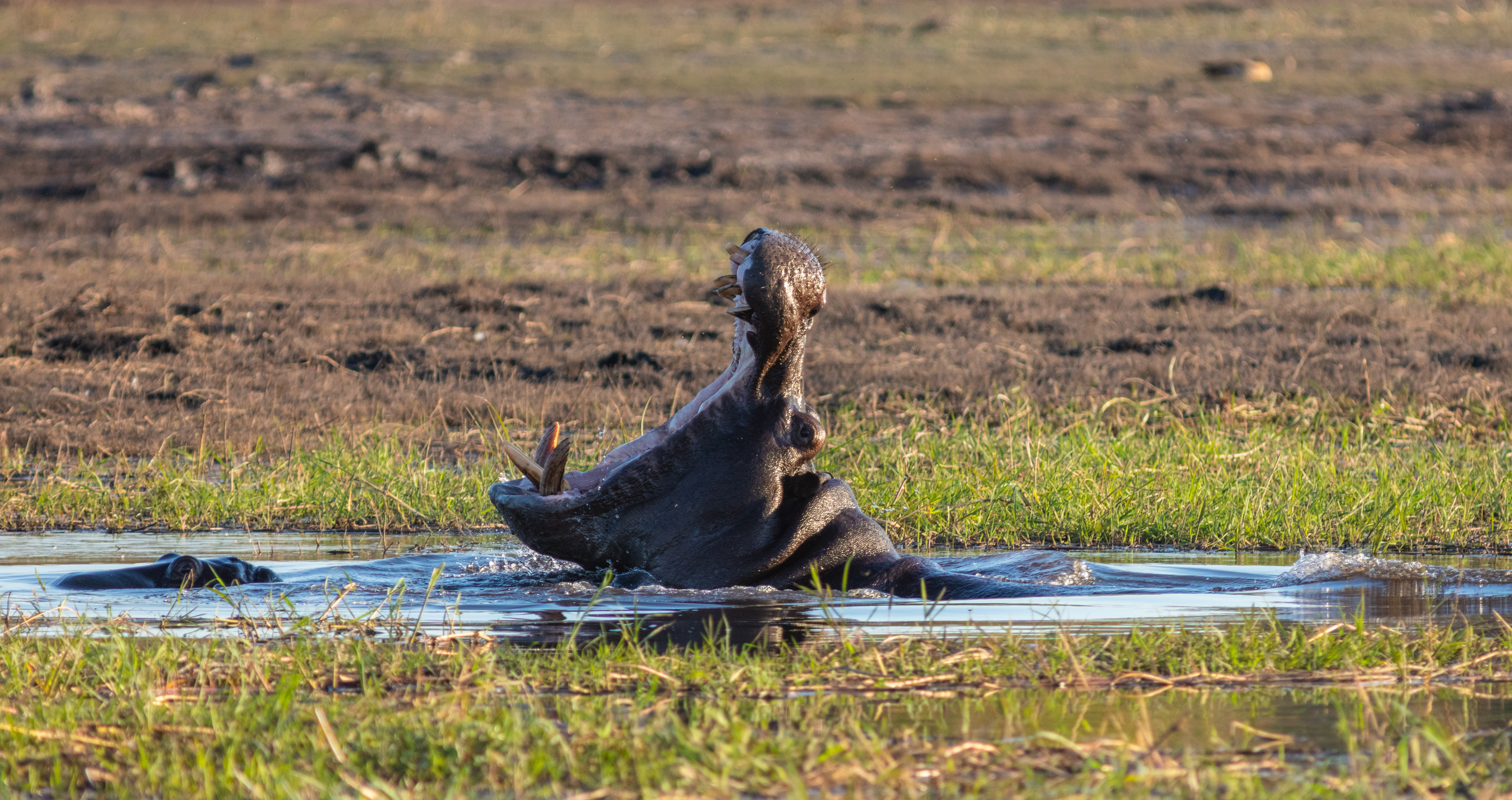 Hippos (Hippopotamus amphibius), Chobe National Park, Botswana